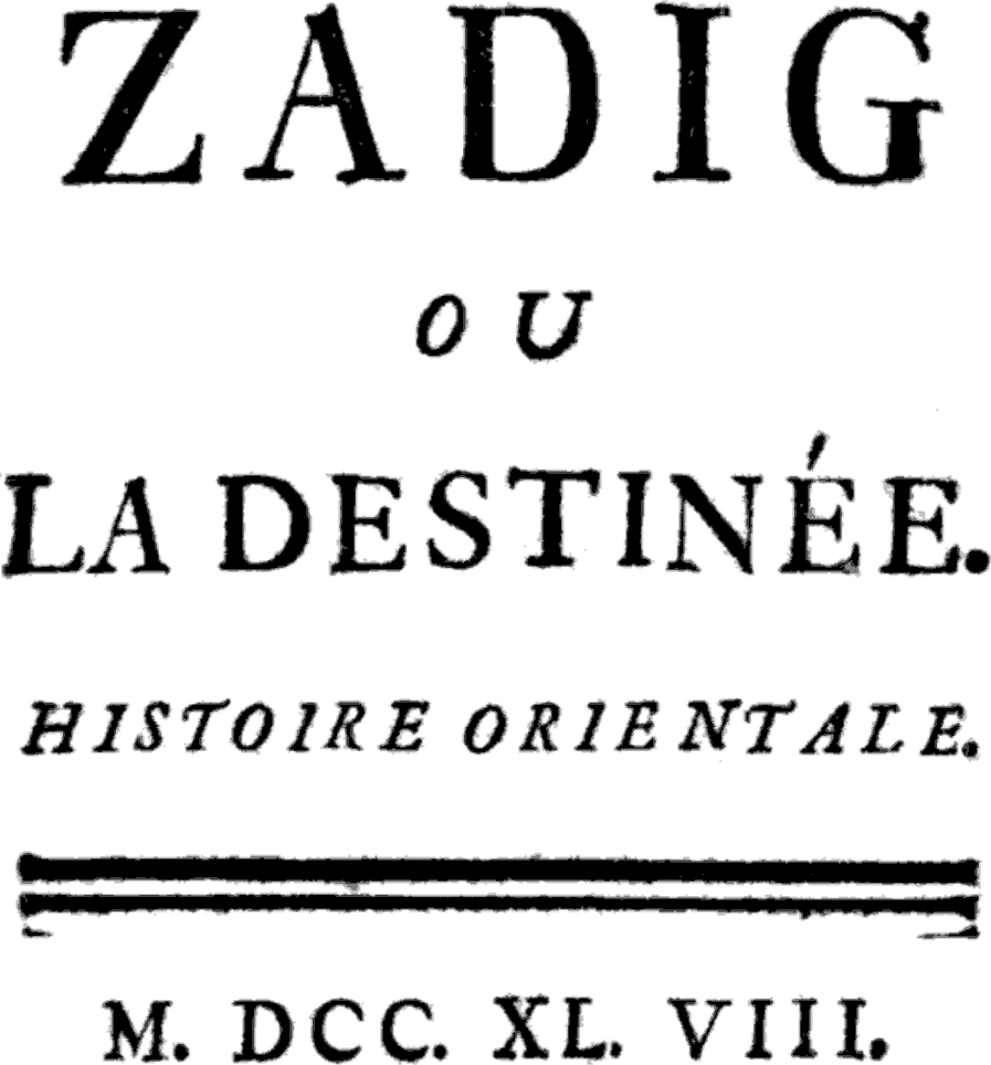 Title page from "Zadig, ou La Destinée" (1747), by Voltaire (1694-1778).